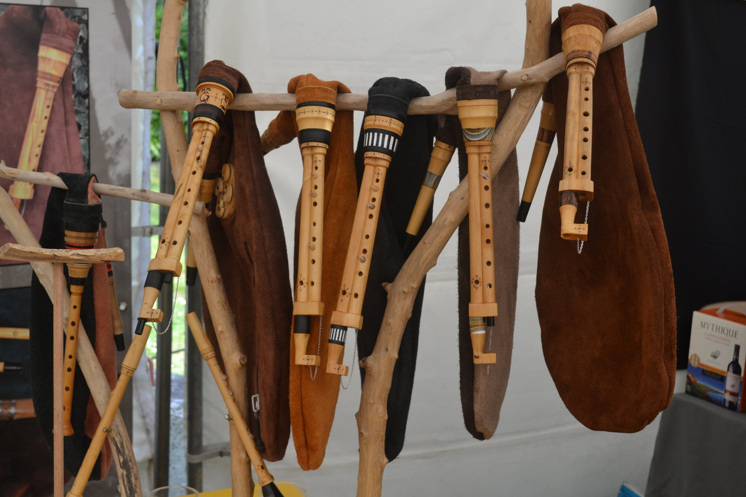 Instrument makers exhibition during Trad'envie 2016.